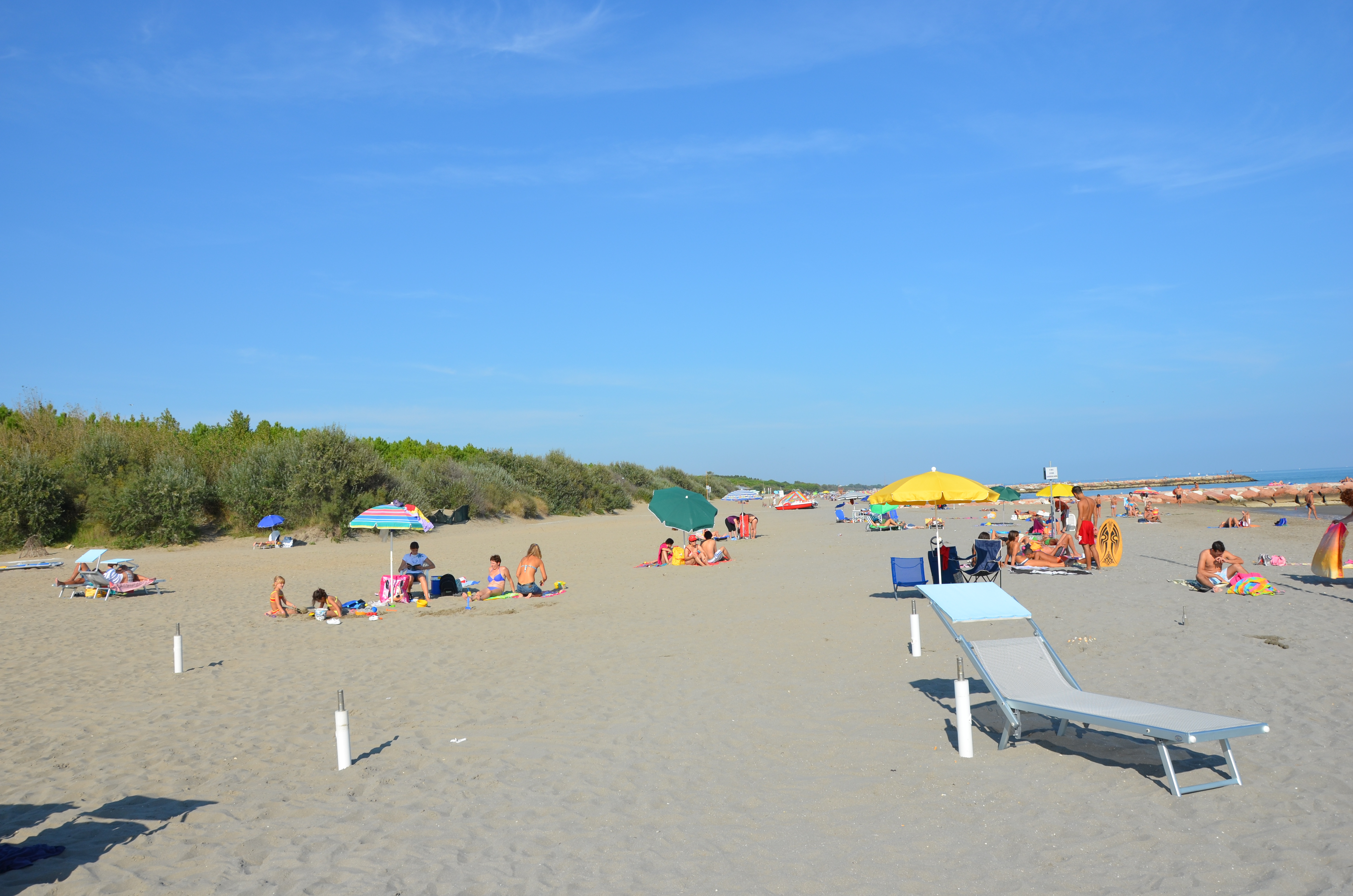 Viwe of Eraclea's Beach in first sunny days of september 2011.